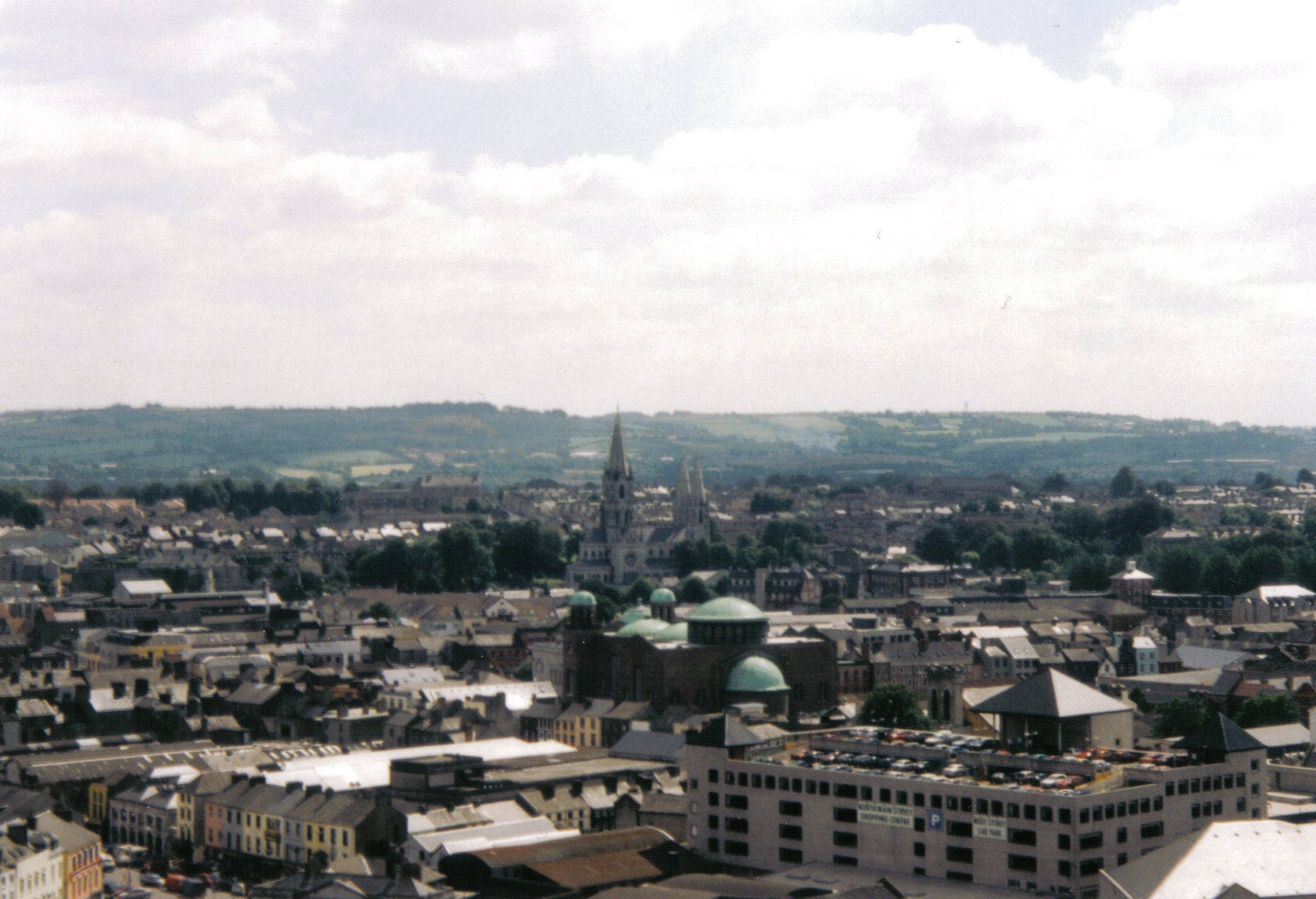 Ireland, Cork